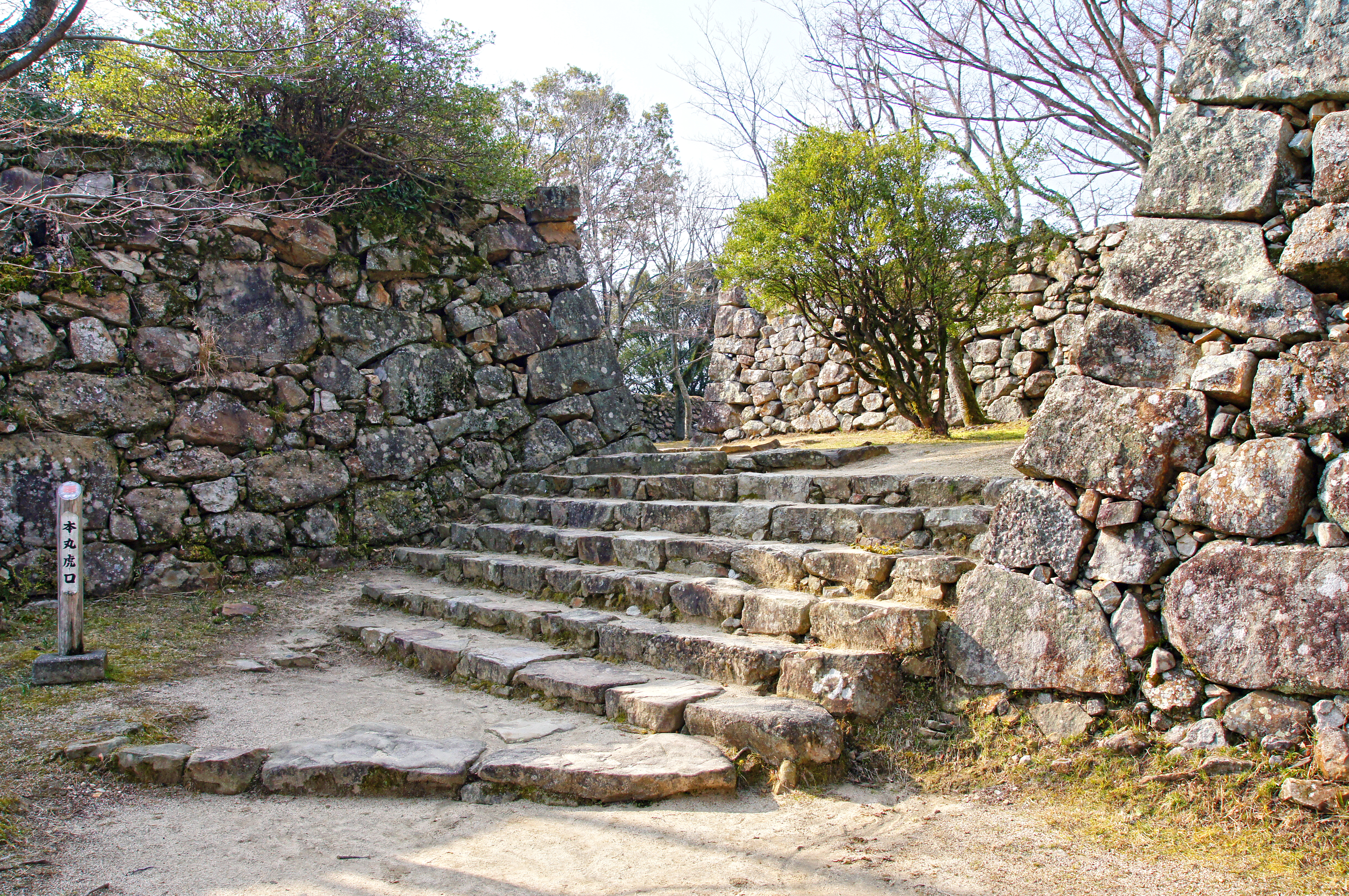 Sumoto Castle in Sumoto, Hyogo prefecture, Japan.